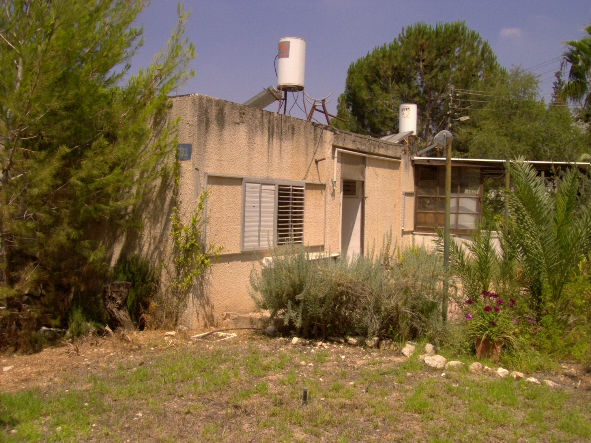 Ashkubit